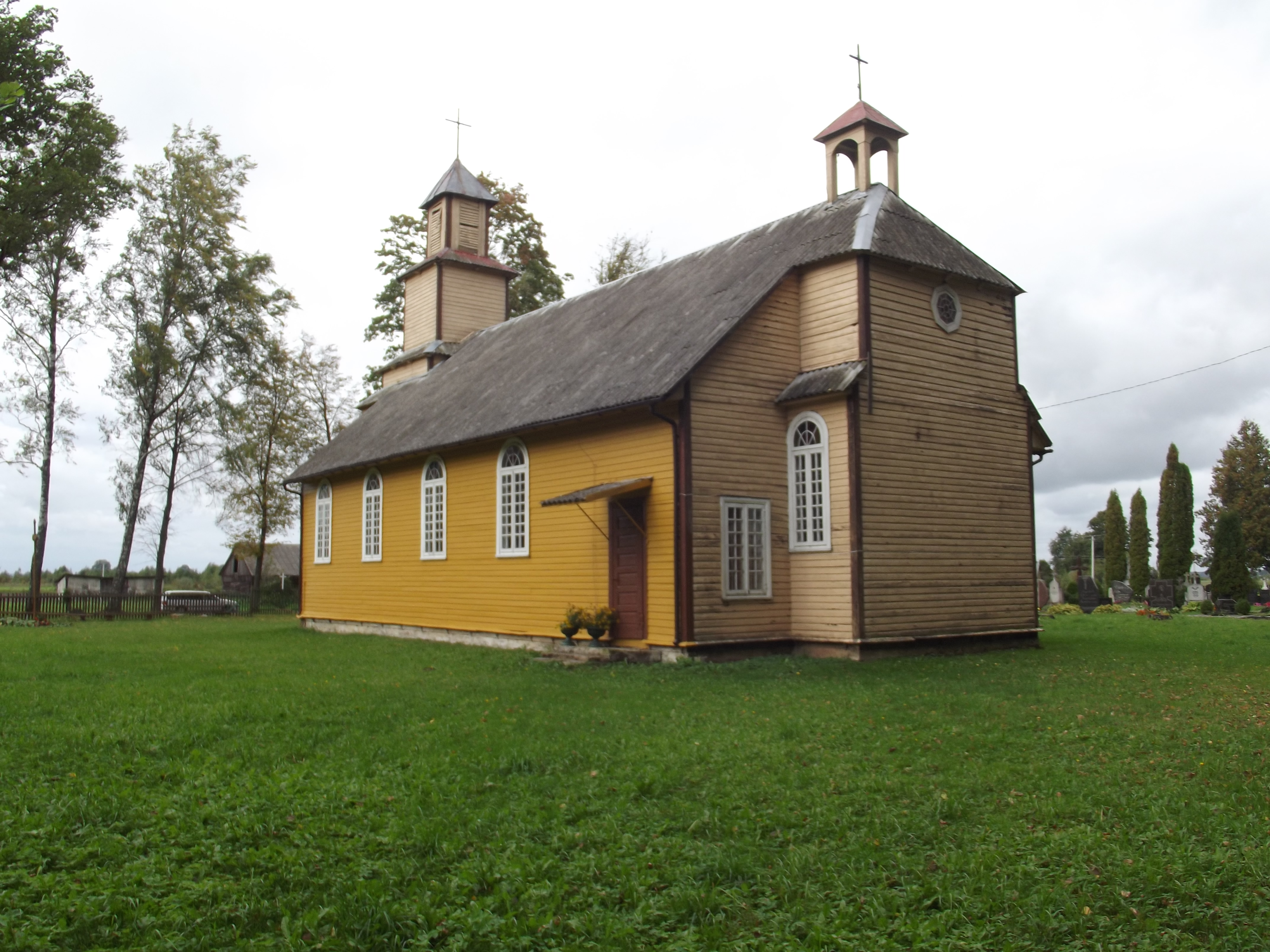 Catholic church in Nemirai, Kazlų Rūda municipality, Lithuania